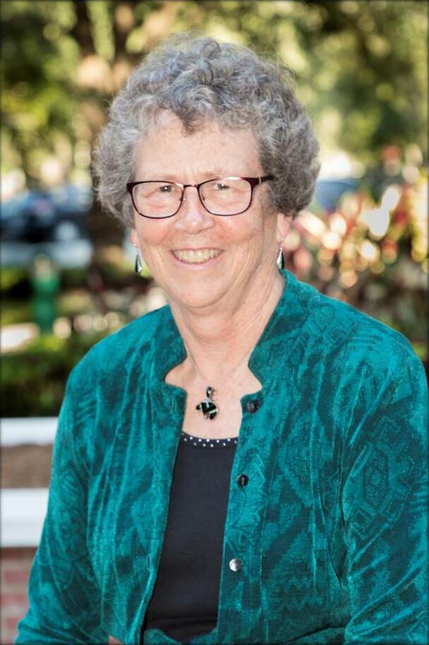 Pam's photo